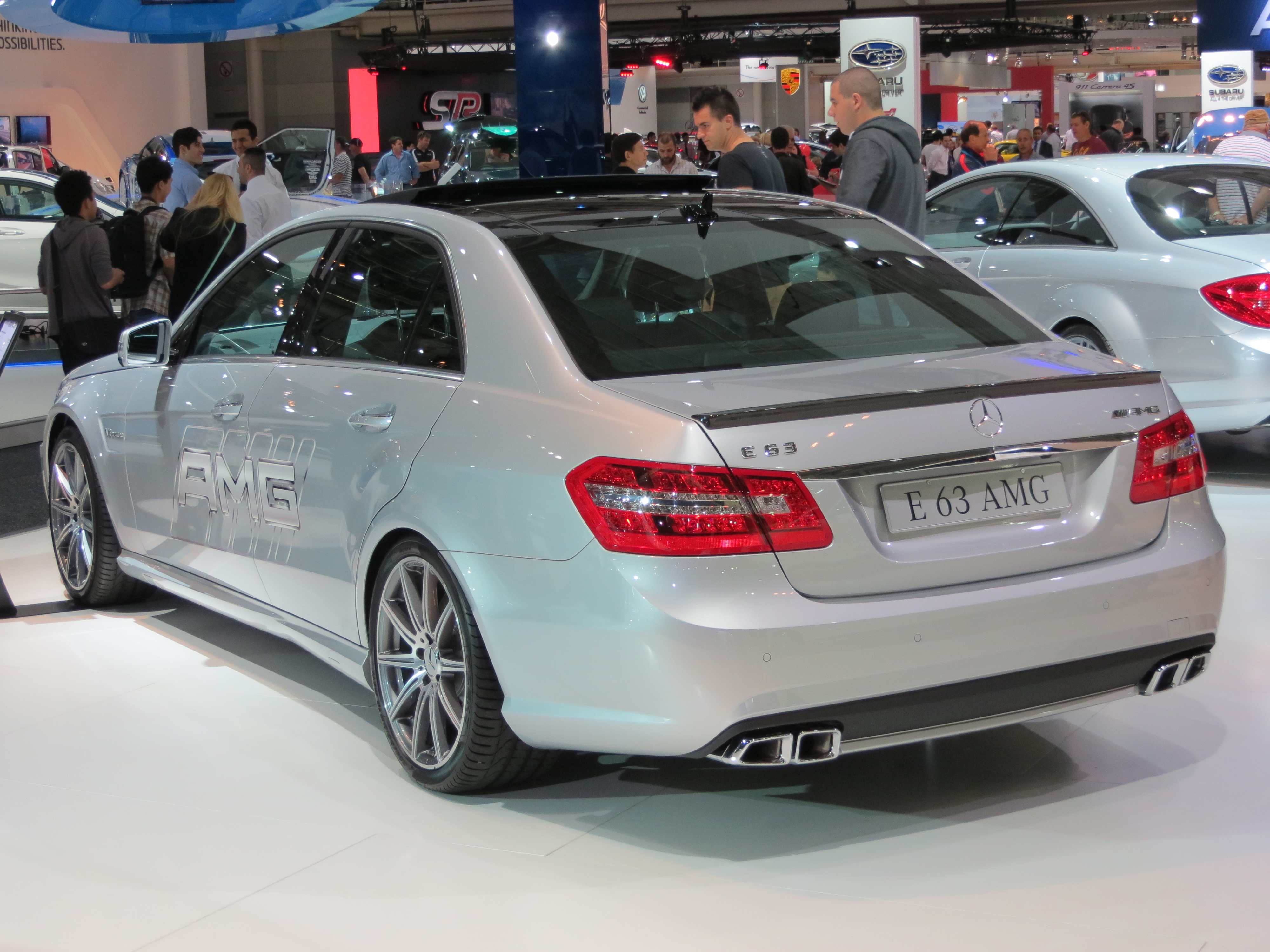 2012 Mercedes-Benz E 63 AMG (W 212 MY12) sedan. Photographed at the 2012 Australian International Motor Show, Sydney, New South Wales, Australia.